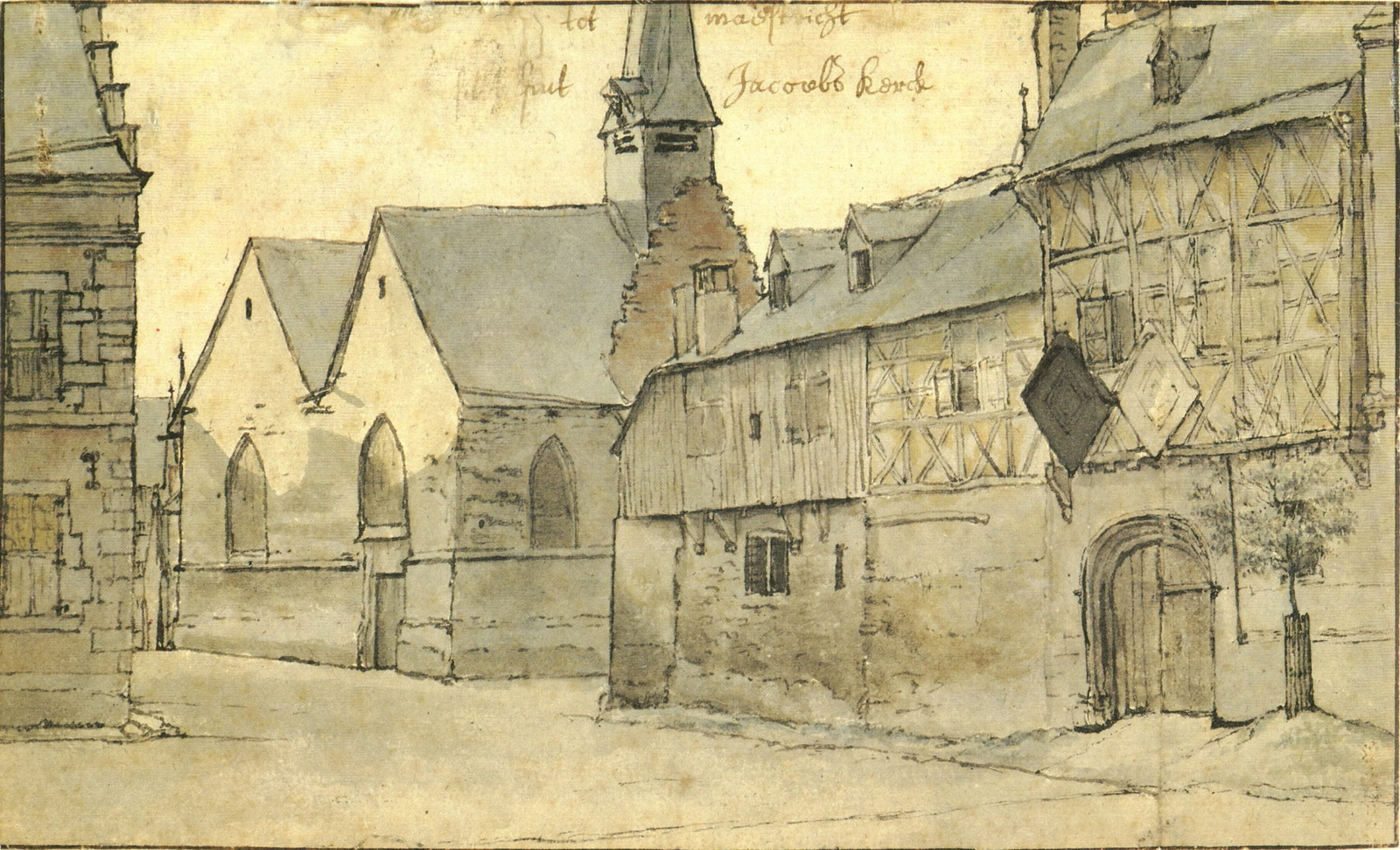 The southeastern corner of Vrijthof square in Maastricht, Netherlands, situation before 1670. In the middle: St.-James chapel. To the right: Part of so-called Spanish Government building. Pen drawing, washed in colour, attributed to Valentijn Klotz. 13,5 x 22,4 cm. Collection: LGOG, Maastricht, Netherlands.